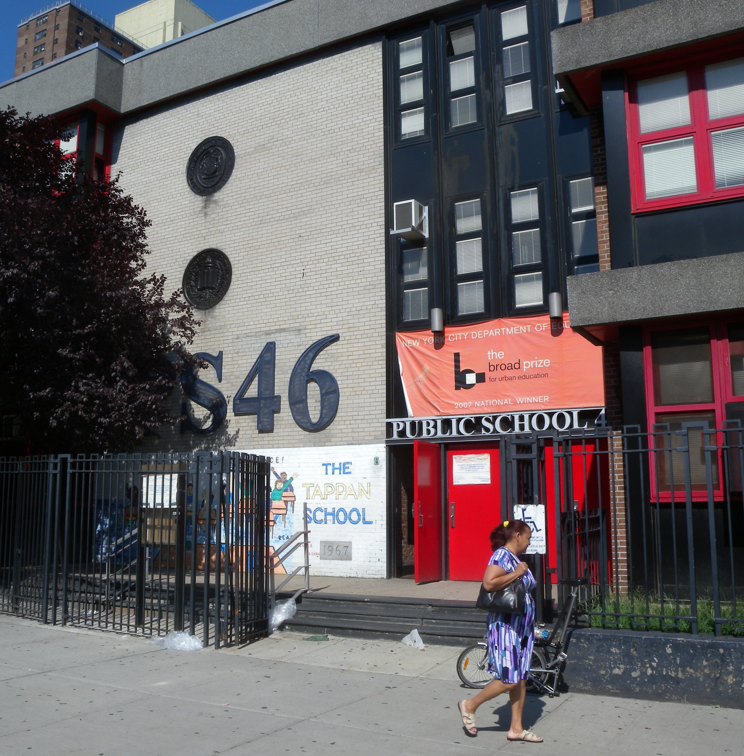 Looking west at PS 46 on a sunny morning.